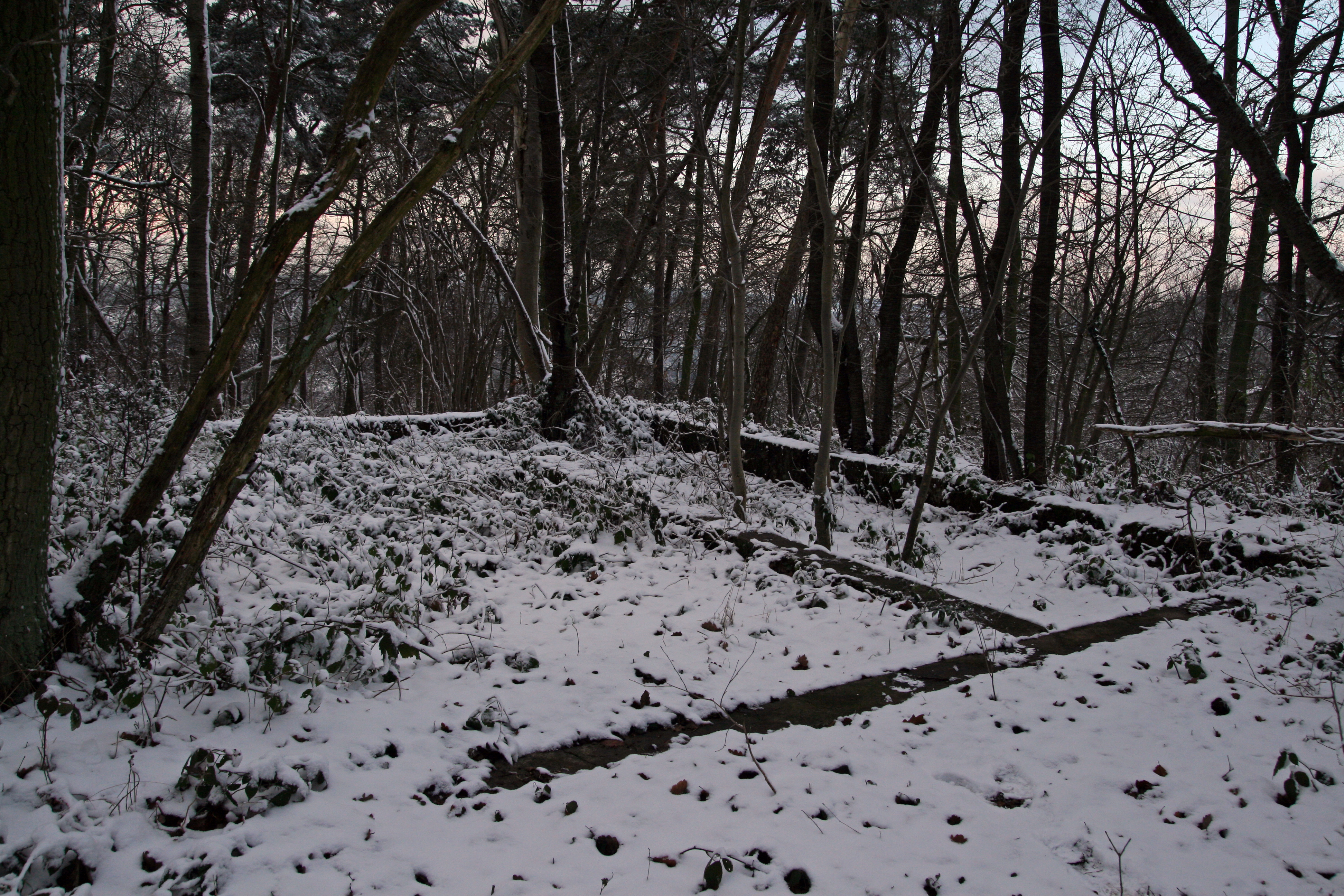 Hitlers Headquarter "Felsennest" in Rodert, Bad Münstereifel, Germany